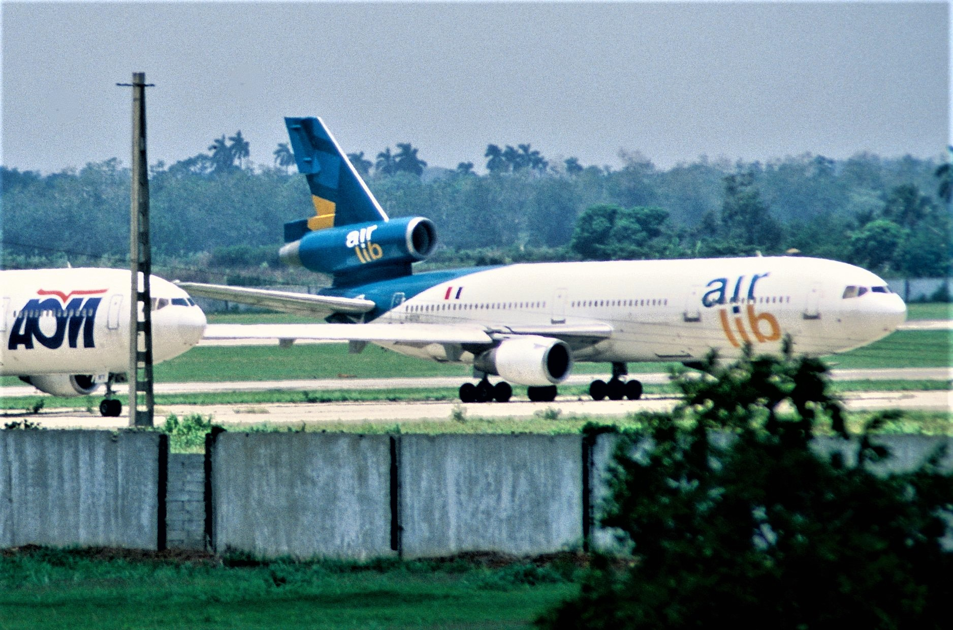 Two French DC-10s operating for Cubana... First flight: April 29, 1976... 07/06/1976 Air New Zealand ZK-NZS 01/03/1978 Malaysia Airlines ZK-NZS 01/04/1979 National Airlines ZK-NZS 29/06/1982 LAN Chile CC-CJS 01/08/1986 SAS SE-DFH 04/10/1986 Scanair SE-DFH 30/03/1987 SAS SE-DFH 24/10/1990 Air Outre Mer F-ODLY 01/03/1992 AOM French Airlines F-ODLY 05/05/2000 AOM French Airlines F-GTLY 01/10/2001 Air Lib F-GTLY